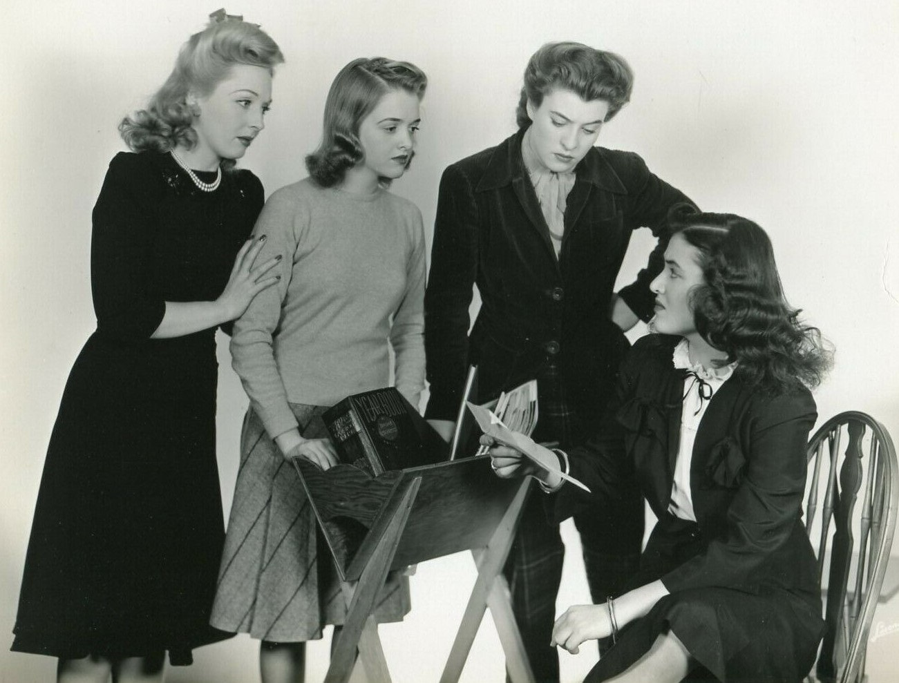 L. to R.: Mary McCormack, Kayo Copeland, Irene Dailey & Ruth Hill, in the play Nine Girls (Broadway, 1943) - publicity still (cropped)